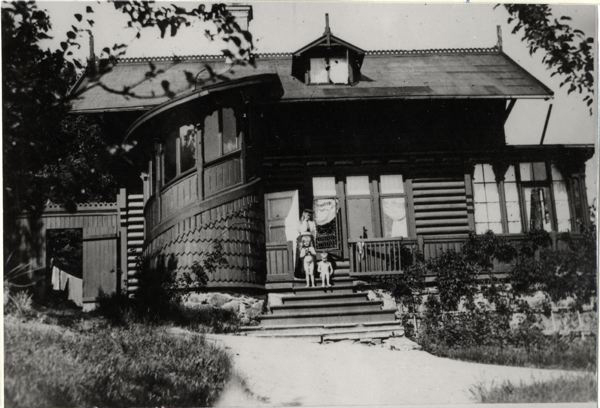 Bjurslätts gård, the summehouse of the publicist S. A. Hedlund at the Hisingen Island on the north side of Gothenburg